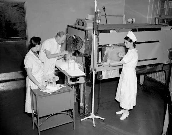 New Orleans, 1937. U.S. Marine Hospital. Fever Therapy. Patient in Kettering hypertherm cabinet. WPA photo. This image is a work of a Works Progress Administration employee, taken or made as part of that person's official duties. As a work of the U.S. federal government, the image is in the public domain (17 U.S.C. §§ 101 and 105).